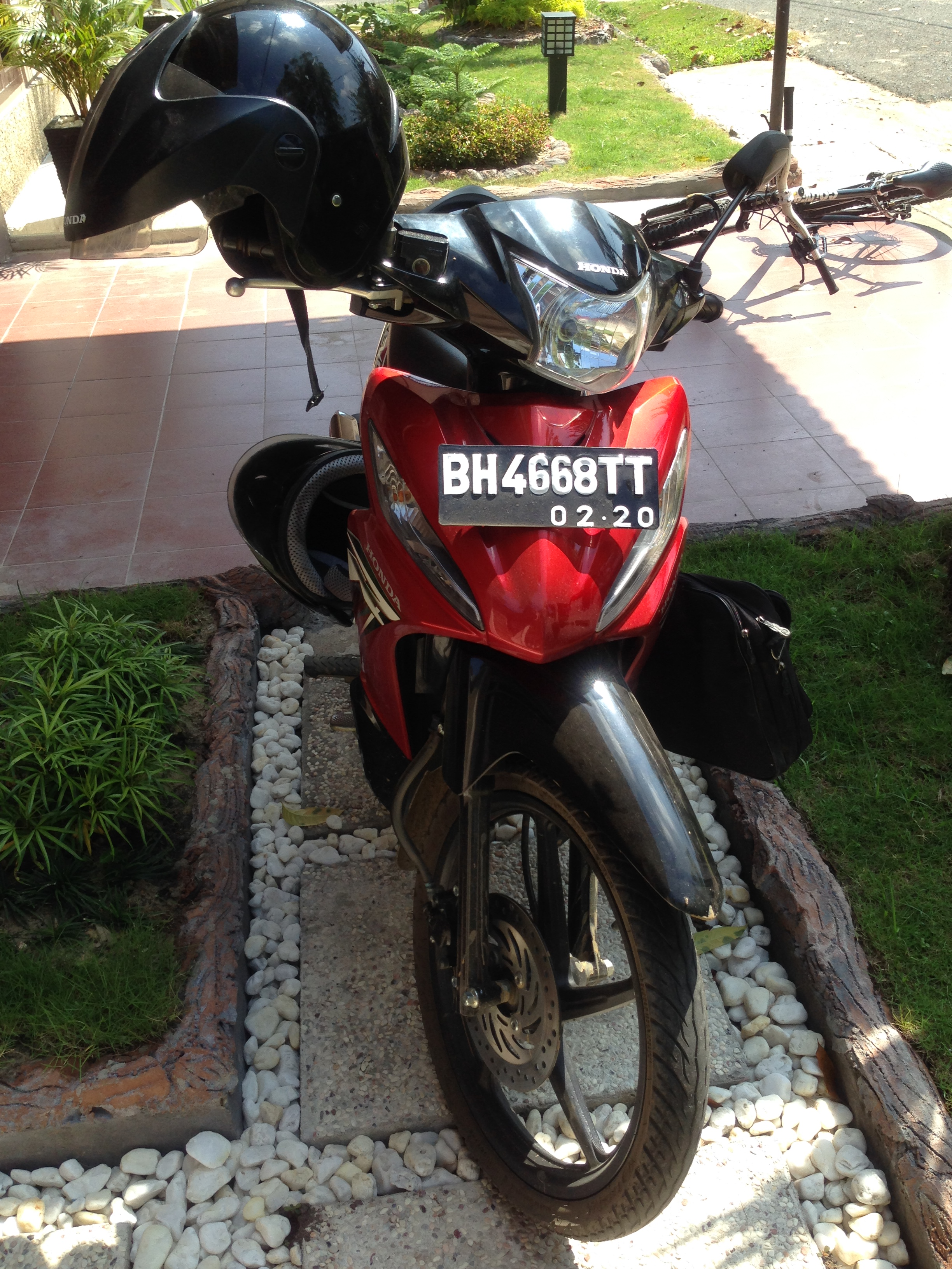 Only marketing in Indonesia, except : Malaysia, Thailand, The Philippines